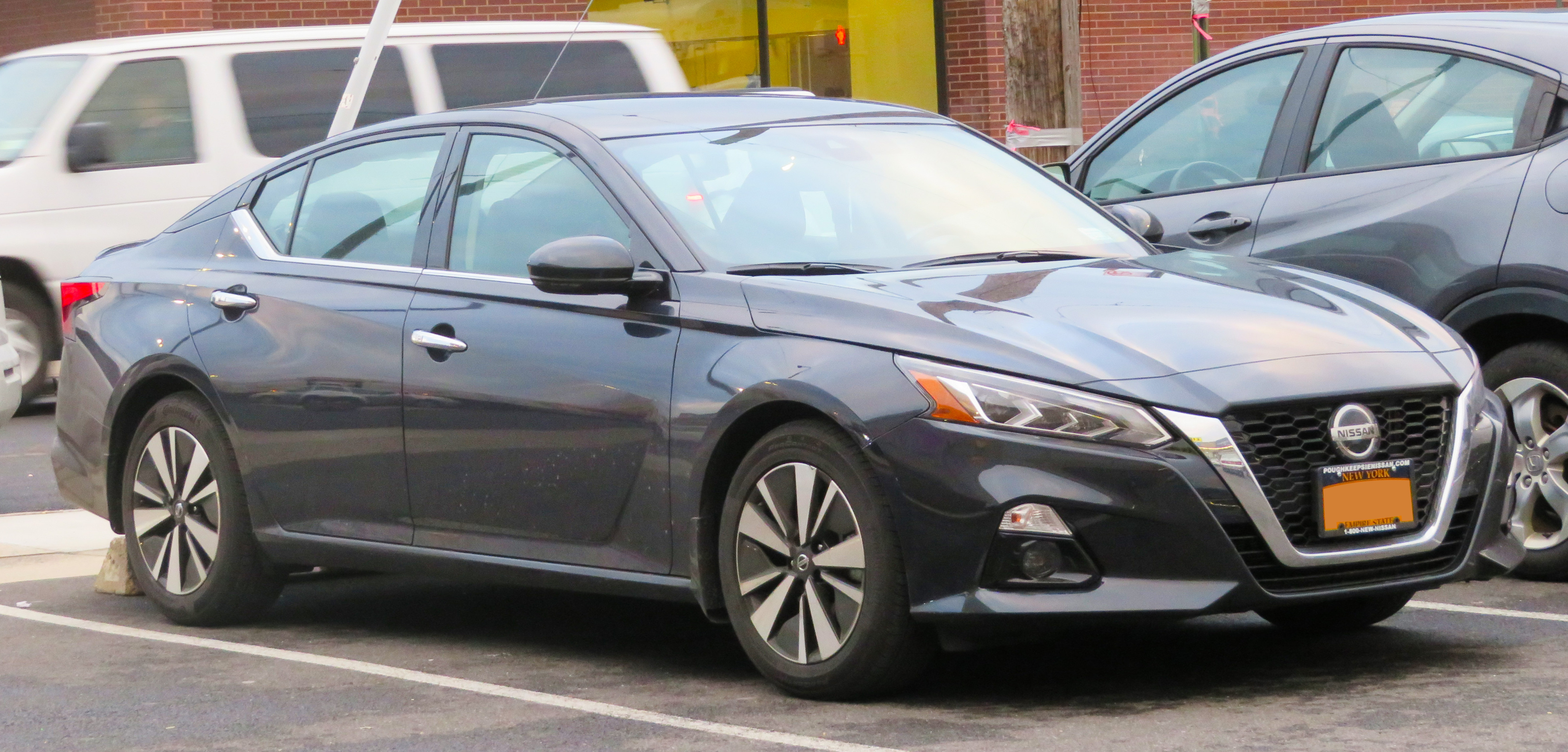 Photographed in Flushing(Queens), New York